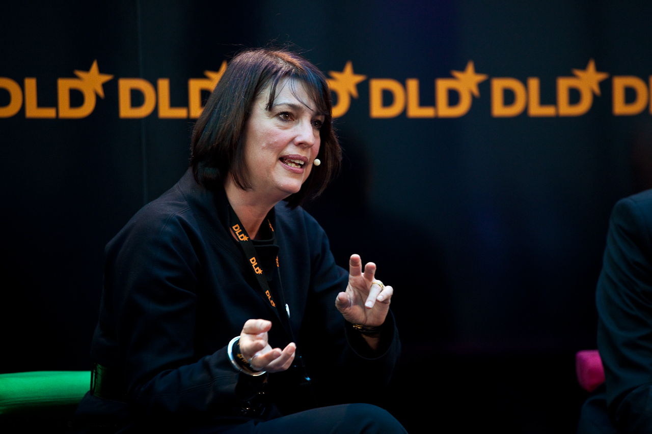 [1]This work by nrkbeta.no is licensed under a Creative Commons Attribution-Share Alike 3.0 Norway License.Permissions beyond the scope of this license may be available at